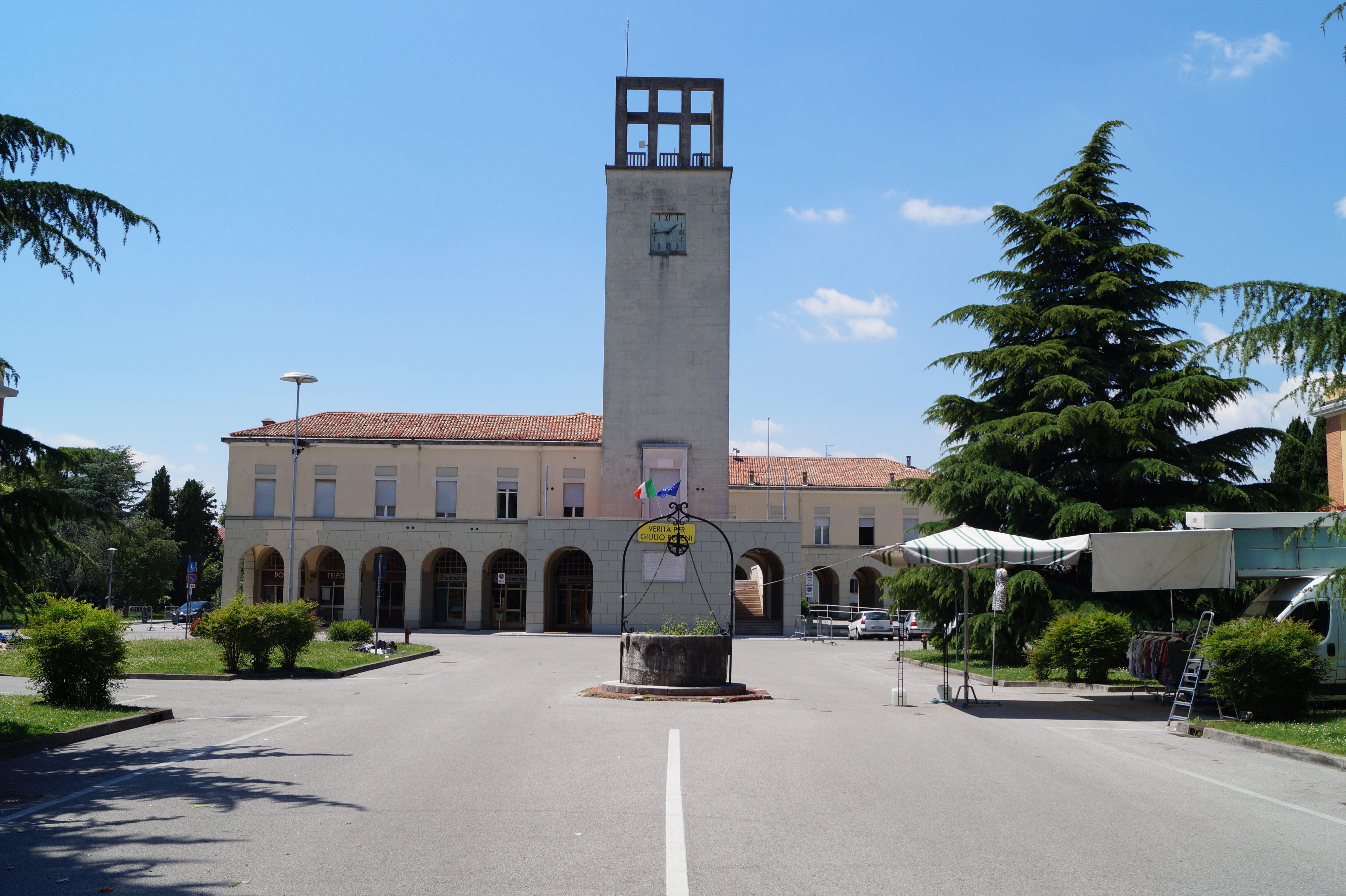 Torviscosa in May 2017